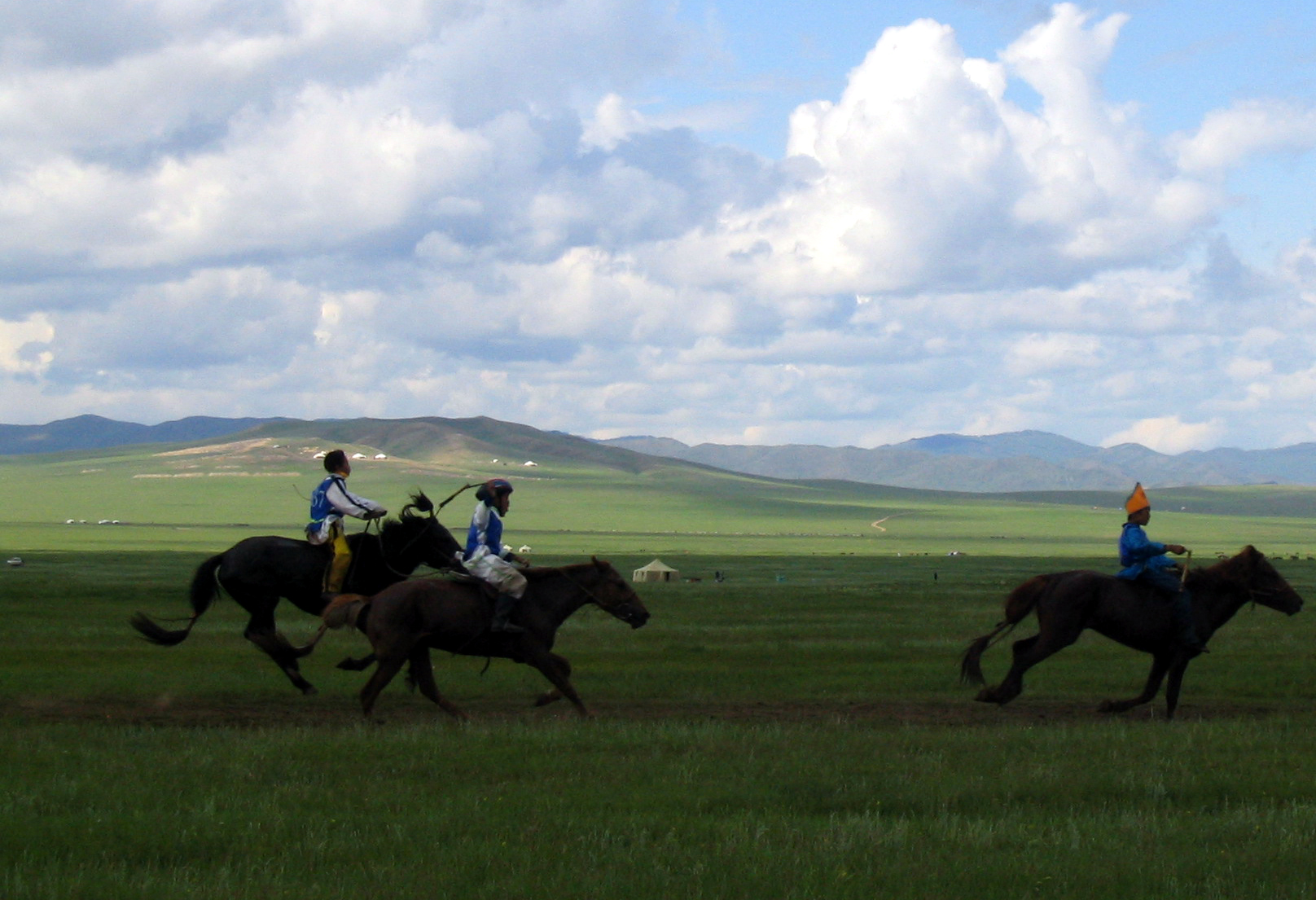 Three boys participating in horse race at Naadam festival in Mongolia